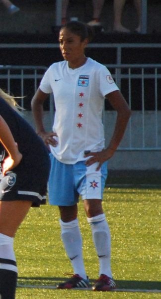 Maribel Dominguez playing for the Chicago Red Stars vs Seattle Reign FC on July 25, 2013 in Tukwila, Washington.